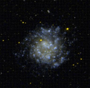 An ultraviolet image of NGC 5474 taken with GALEX. Credit: GALEX/NASA.